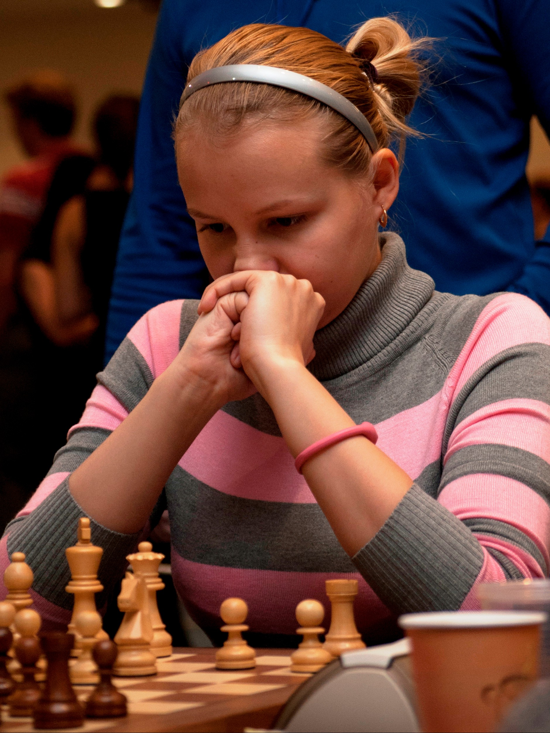 WGM Valentina Gunina and GM Yury Dokhoian, Porto Carras EchT 2011.